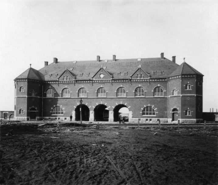 The freight railway terminal in Copenhagen, designed by Heinrich Wenck (1851-1936) in 1895, completed in 1901 and demolished around 1968.